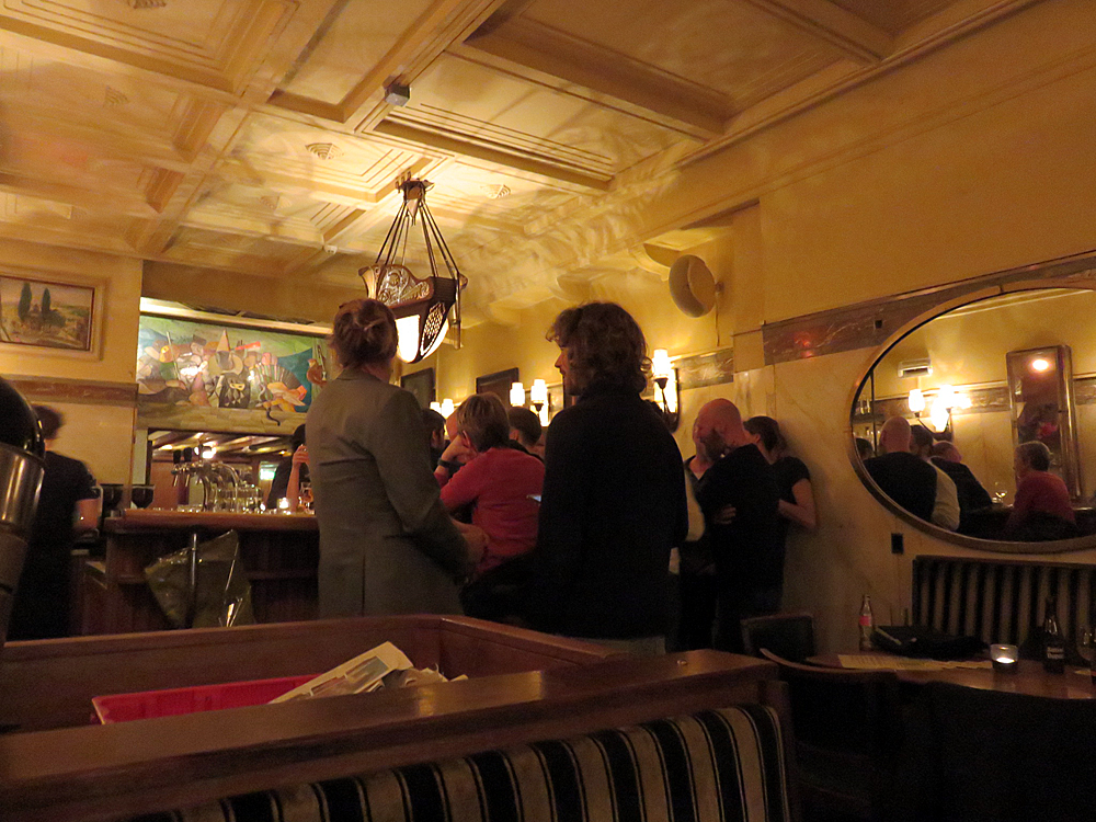 Interior of the early 20th century cafe Schiller at Rembrandtplein 26 in Amsterdam